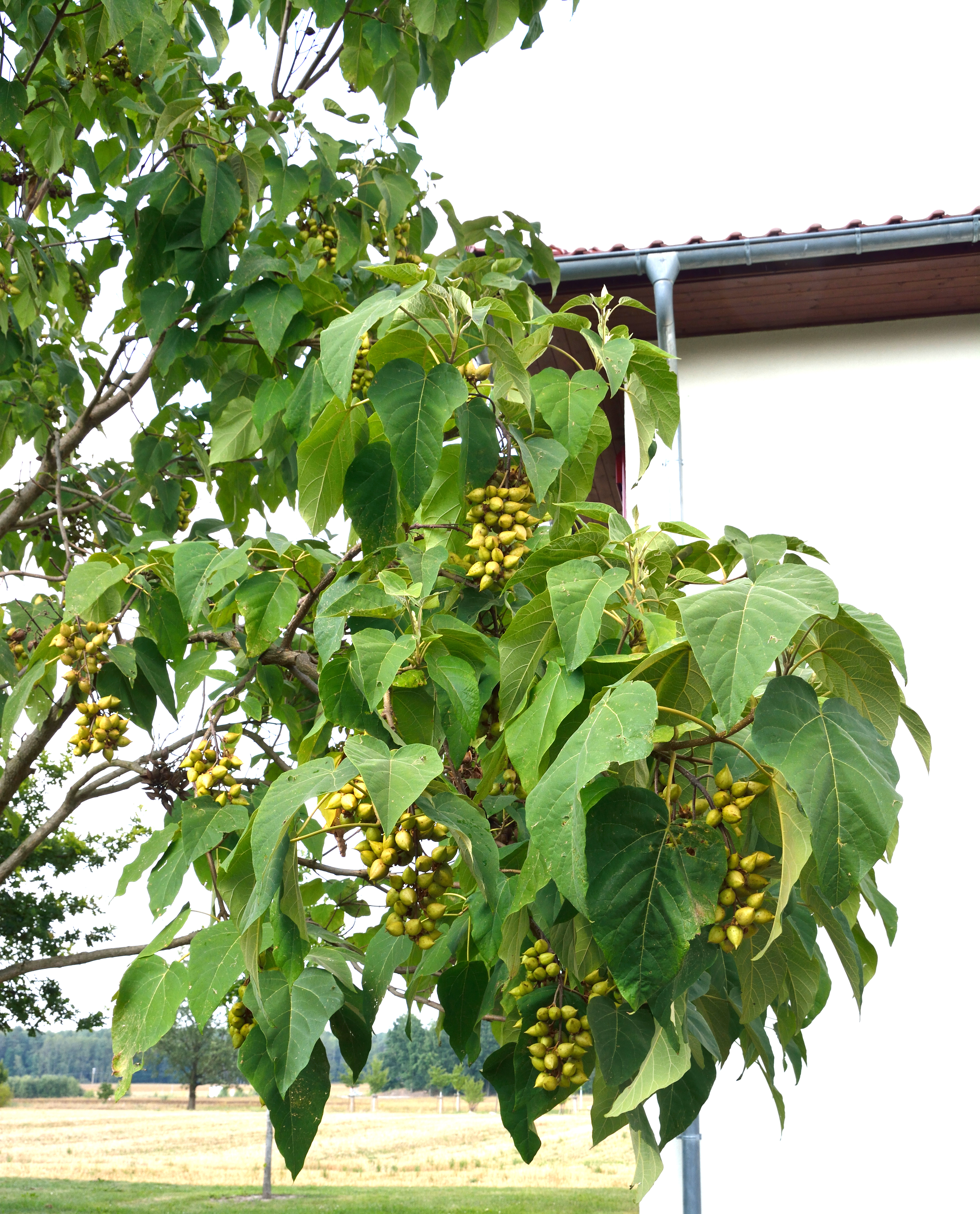 Impressionen aus Trebendorf Ein Blauglockenbaumgewächs. TransLausitz 2015 um Boxberg/O.L. This photo was taken during the project transLAUSITZ in August 2015. More mediafiles of that project are provided within the category transLAUSITZ 2015. The making of this document was supported by the Community-Budget of Wikimedia Germany.